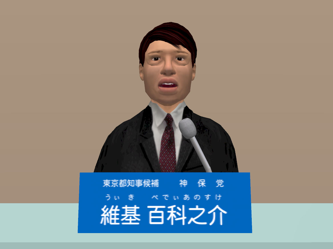 Sample of Japanese broadcast of political views.